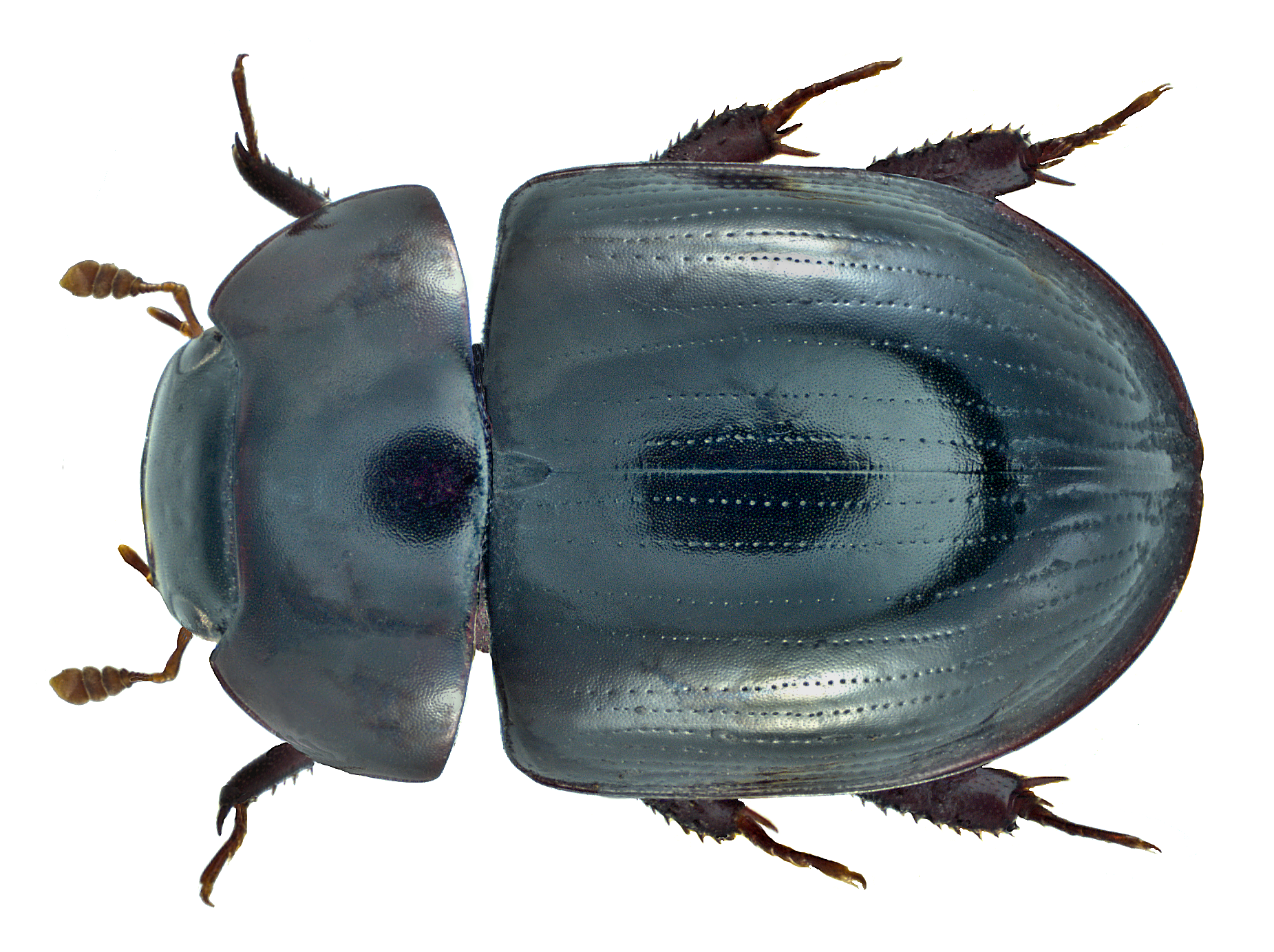 Family: Hydrophilidae Size: 7,3 mm (5,5 mm) Location: Thailand, Khao Lak, environment Hotel Similana leg. U.Schmidt, 8.-22.XI.2007; det. A.Skale, 2007 Photo: U.Schmidt, 2014